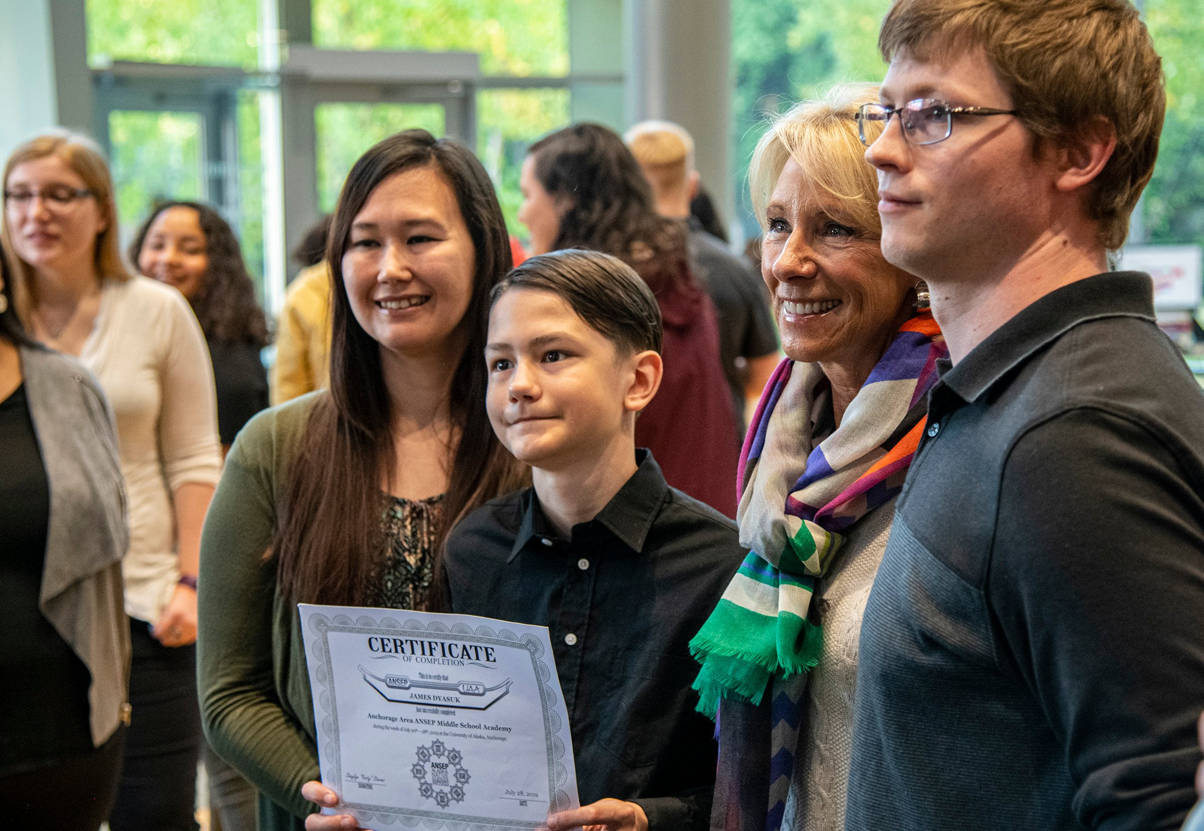 This morning, I joined @usedgov @BetsyDeVosED for a visit to the @ANSEP_AK, led by Dr. Herb Schroeder on the @uaanchorage` campus. Today, as always, the students impressed with their energy, skills, and insightful questions for the secretary.